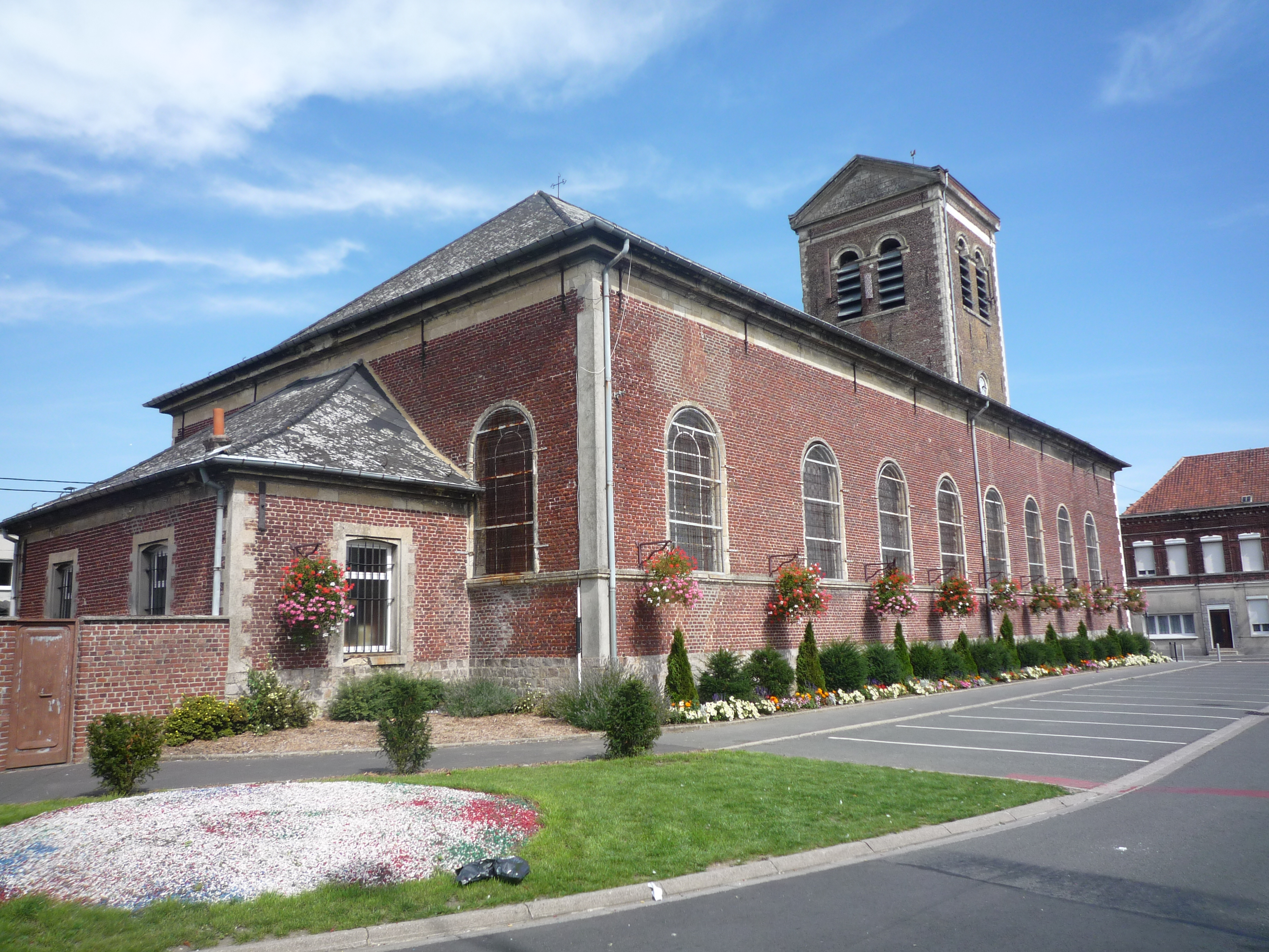 Church Saint-André at Fenain.